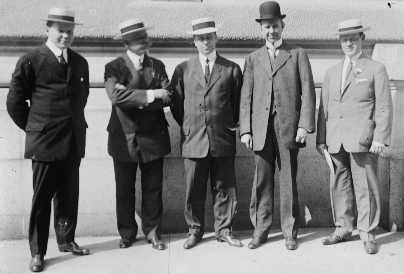 National Electric Light Association members. Left to right: Gilchrist; Martin; Tait; Freeman; Frueauff. That they are NELA members can be deduced from the "National Electric Light Association Bulletin of 1911", which lists: President - W. W. Freeman (Brooklyn, NY) Second Vice President - Frank M. Tait (Dayton, OH) Executive Committee - Frank W. Frueauff (New York, NY), John F. Gilchrist (Chicago,IL) Progress Committee Chairman - T. Commeford Martin (New York, NY)